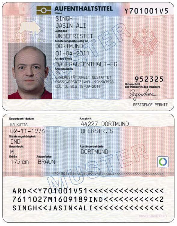 Residence permit for third-country nationals who are long-term residents (COUNCIL DIRECTIVE 2003/109/EC) in Germany (electronic version)